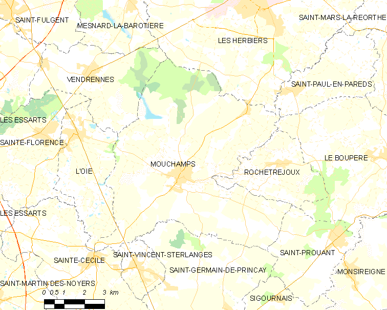 Map of French municipality Mouchamps